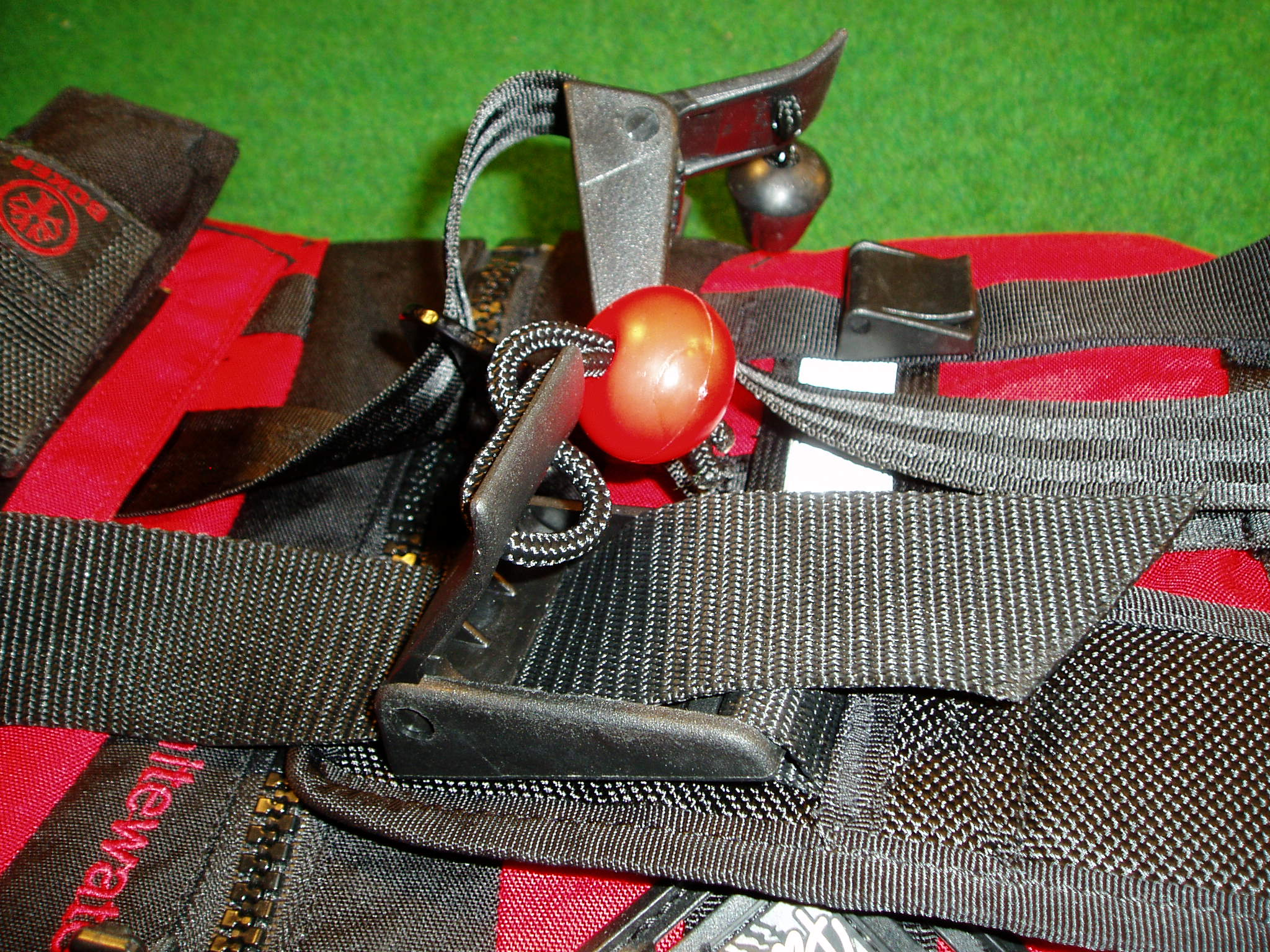 Cowtail